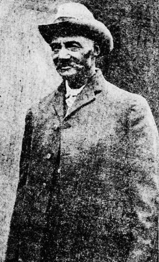 "Only Policeman Who Ever Arrested a President" - DC Policeman William West on the arrest of President Grant